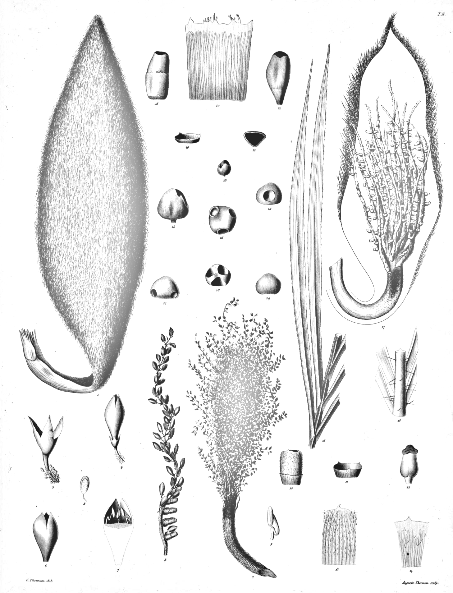 Plate from book